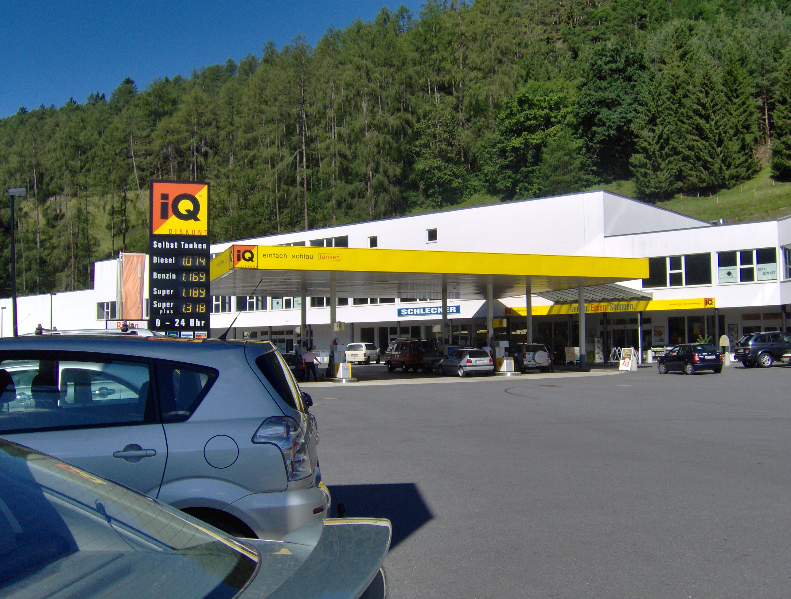 IQ-Diskont filling station in Tarrenz, Tyrol, Austria